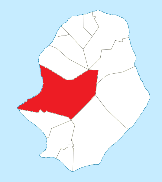 Location map for Alofi North and Alofi South, Niue. Based on file:Niue location map.svg.